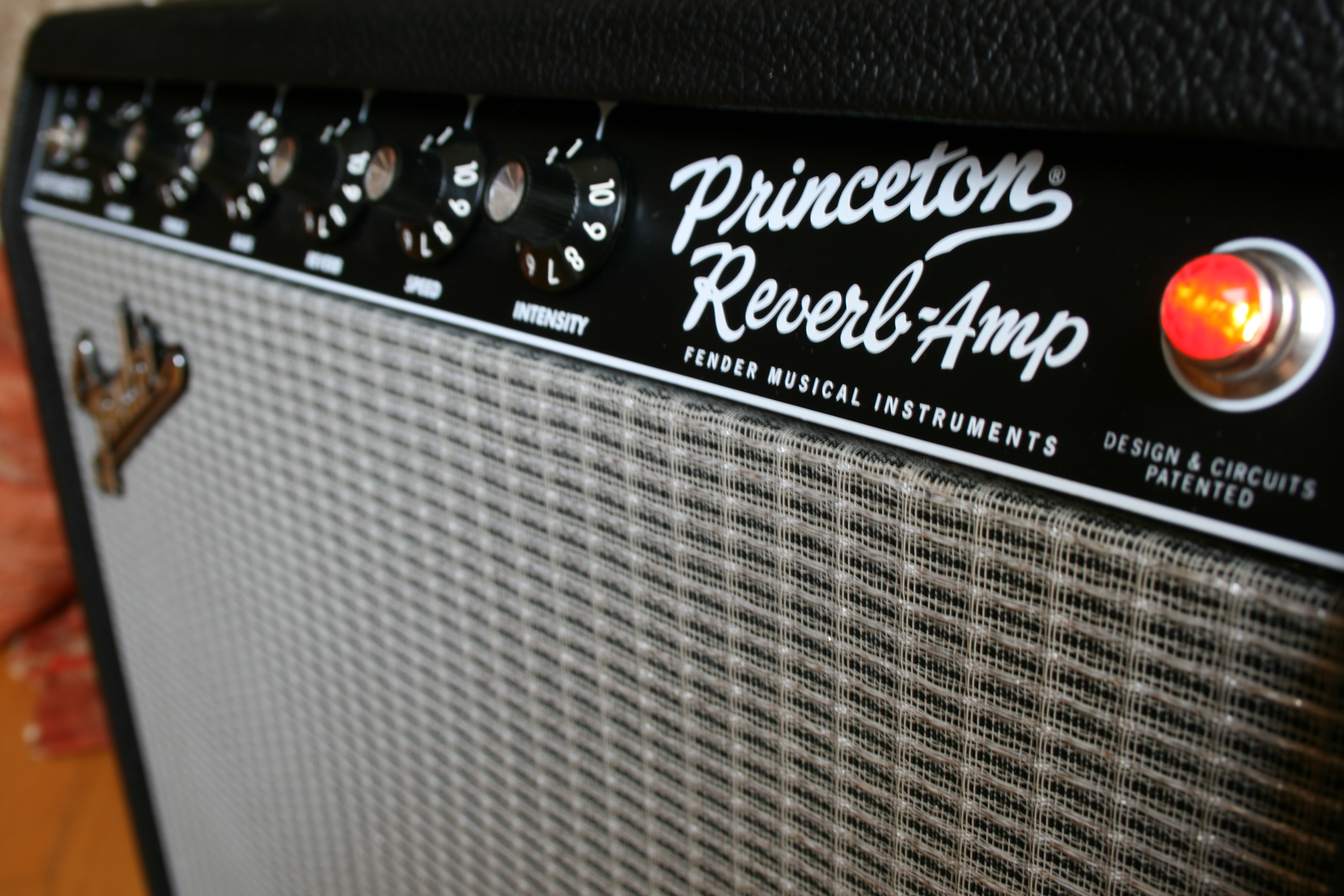 Detail of the Fender Princeton Reverb Amp 65 Reissue